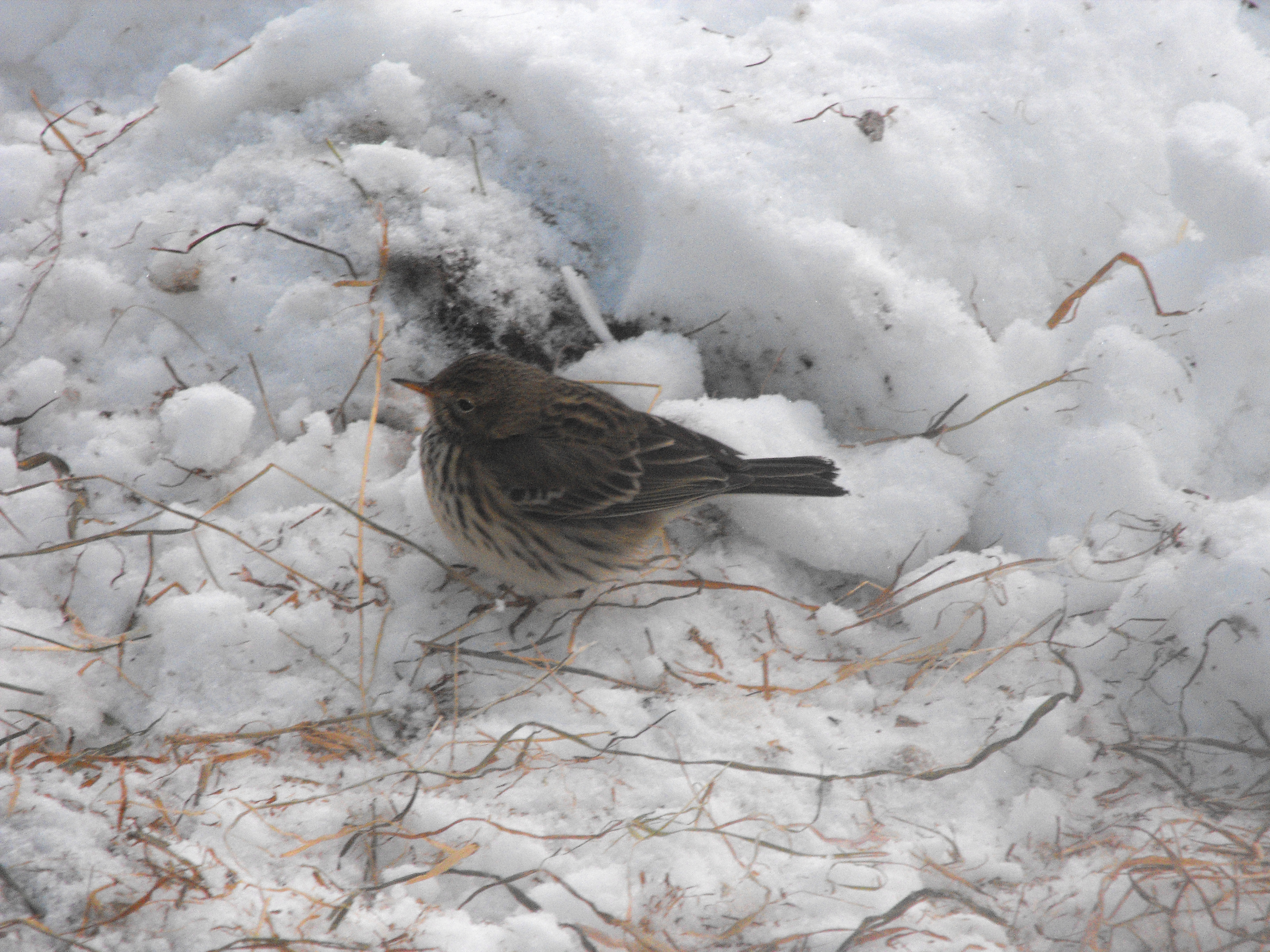 Meadow Pipit Anthus pratensis in Downiesburn Park, Newmilns.